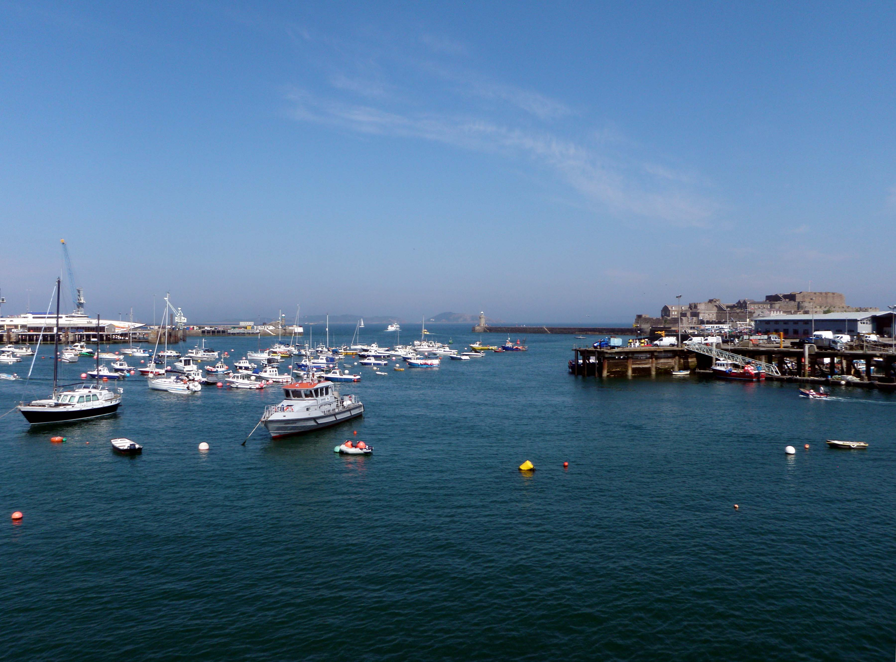 View of the Saint Peter Port Harbour, Saint Peter Port, Guernsey.In the background to the right is Castle Cornet, and to the left can be seen one of the Condor Ferries vessels.